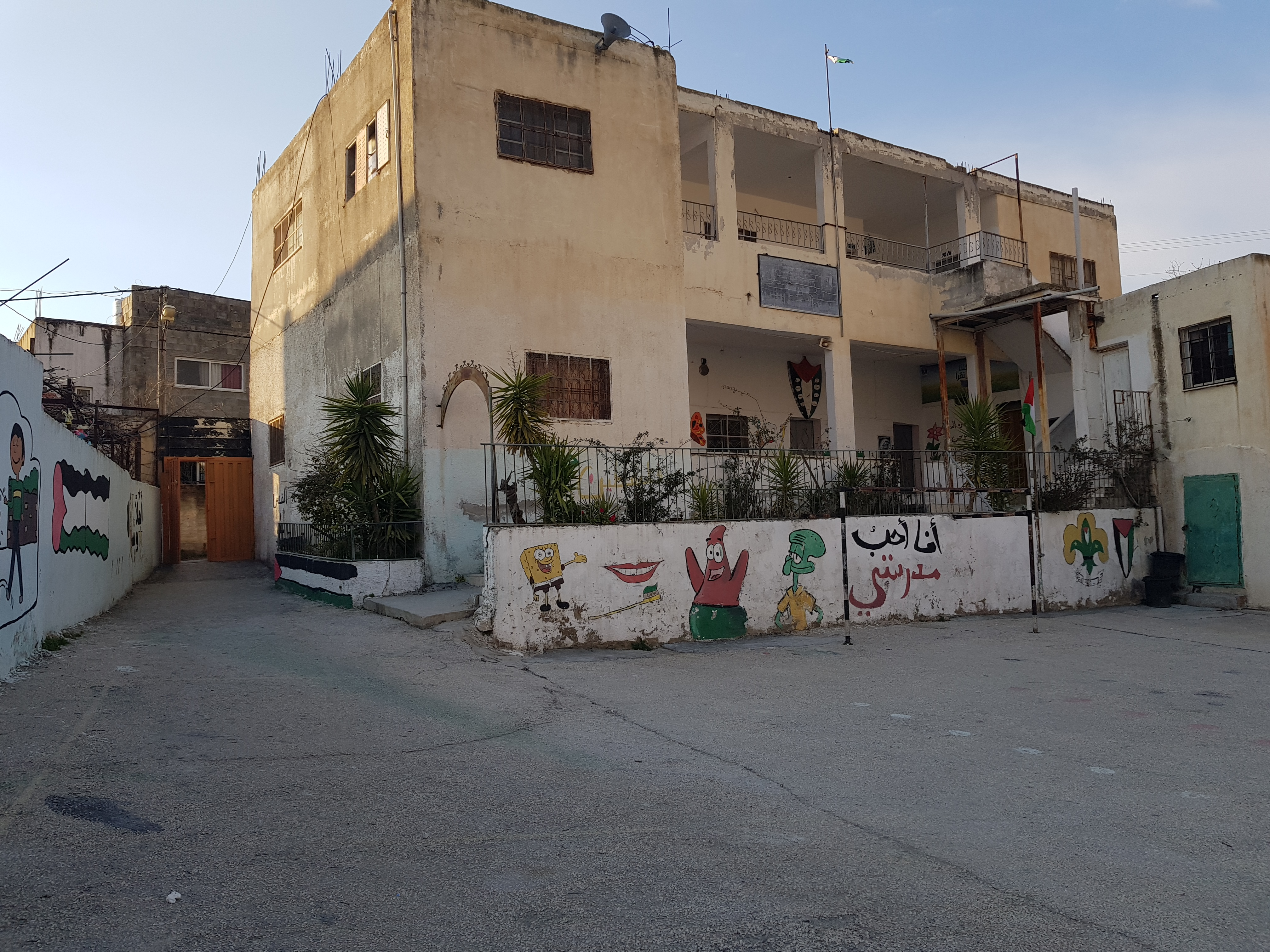 A Governmental school in Qusin village.